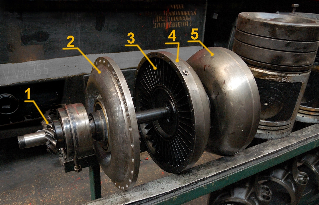 Fluid couplings of compressor & cooler of shunter ChME3, Russia 1 — primary cone of main ventilator 2 — turbine wheel 3 — pump wheel 4 — corps of ventilator coupling 5 — corps of compressor coupling